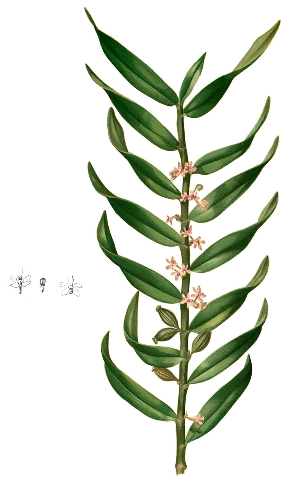 Trichoglottis rigida - Plate from book